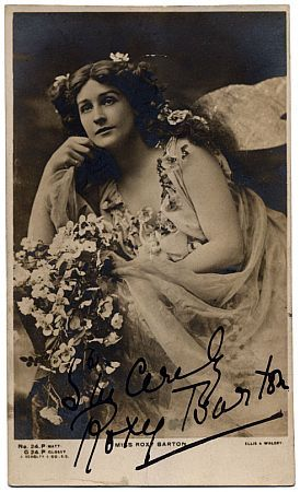 The actress Roxy Barton as Titania in 'A Midsummer Night's Dream' at the Adelphi Theatre (1905)